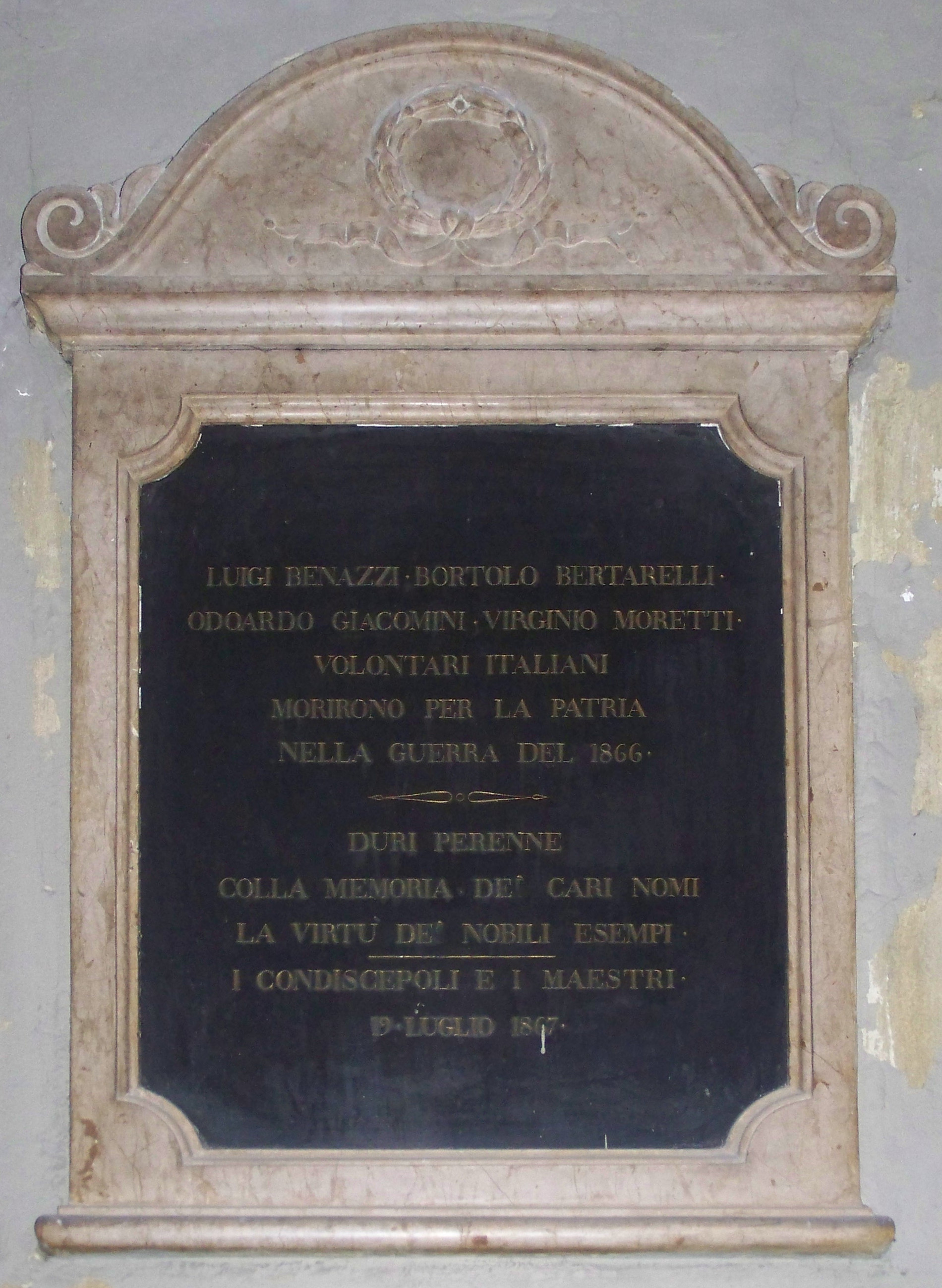 Plaque dedicated to Liceo-Ginnasio students who died in the Third Italian Independence War in 1866. From 1819 to 1925 Liceo-Ginnasio Arnaldo of Brescia seated in Bargnani Palace.